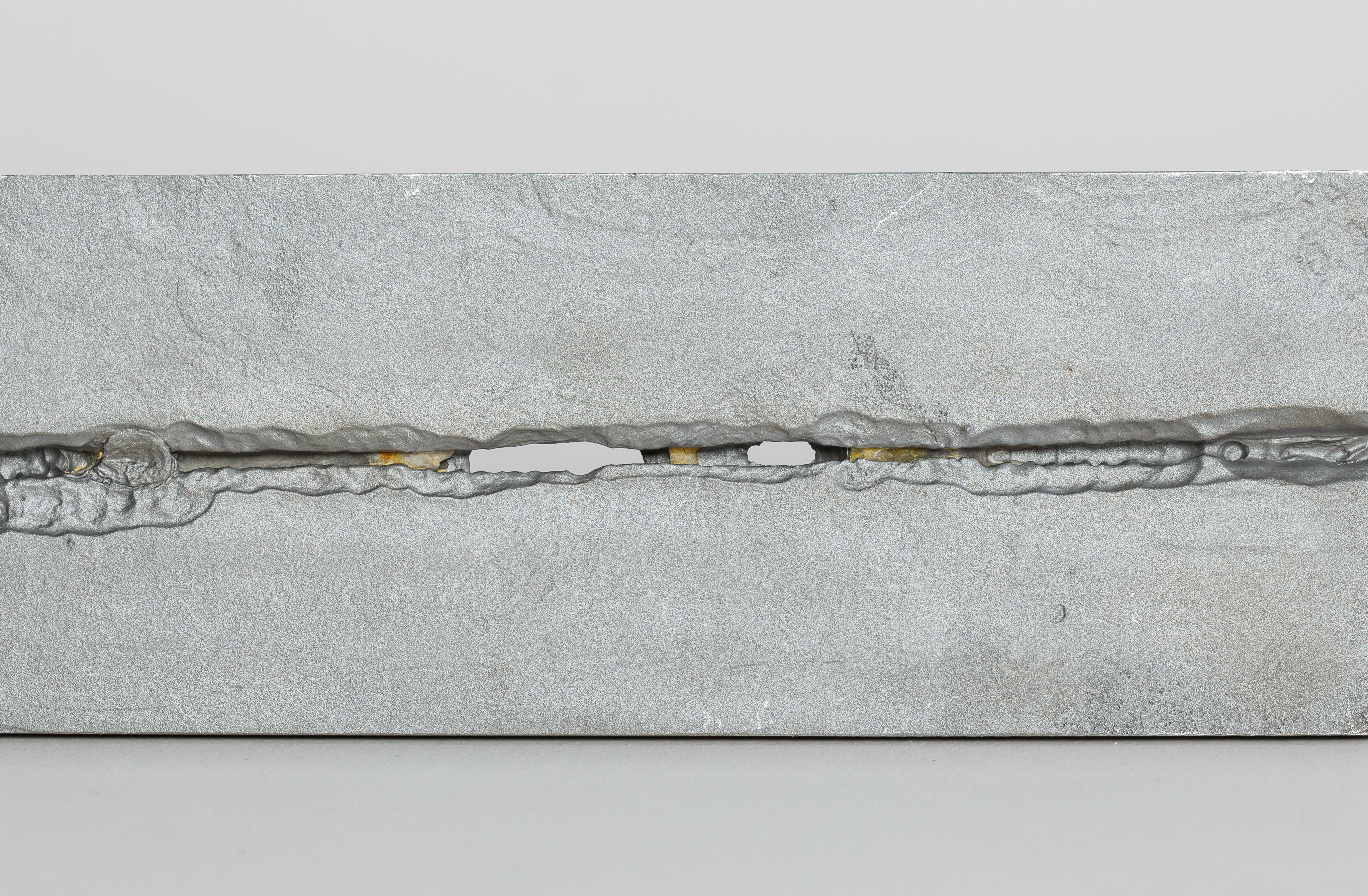 Acid corrosion in a flue gas duct as a result of condesation of flue gas. The acid accumulated behind the chamotte layer and caused the depicted corrosion. This photo: gas side of the duct